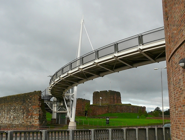 Irish Gate footbridge Crossing the busy dual carriageway which separates the castle from the rest of the city, the footbridge was constructed as a Millennium project. There are lifts at either end, but they are often out of order.